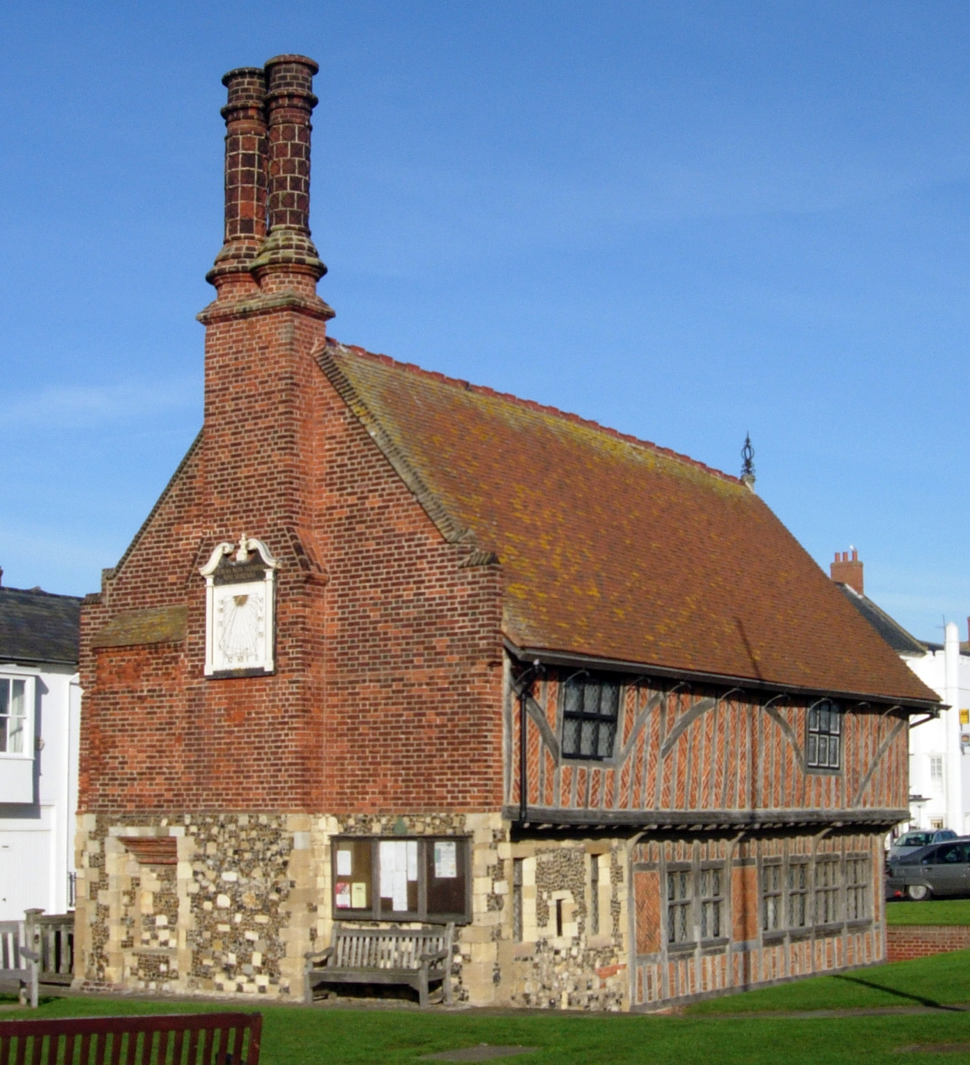 Moot Hall, Aldeburgh, Suffolk, England.